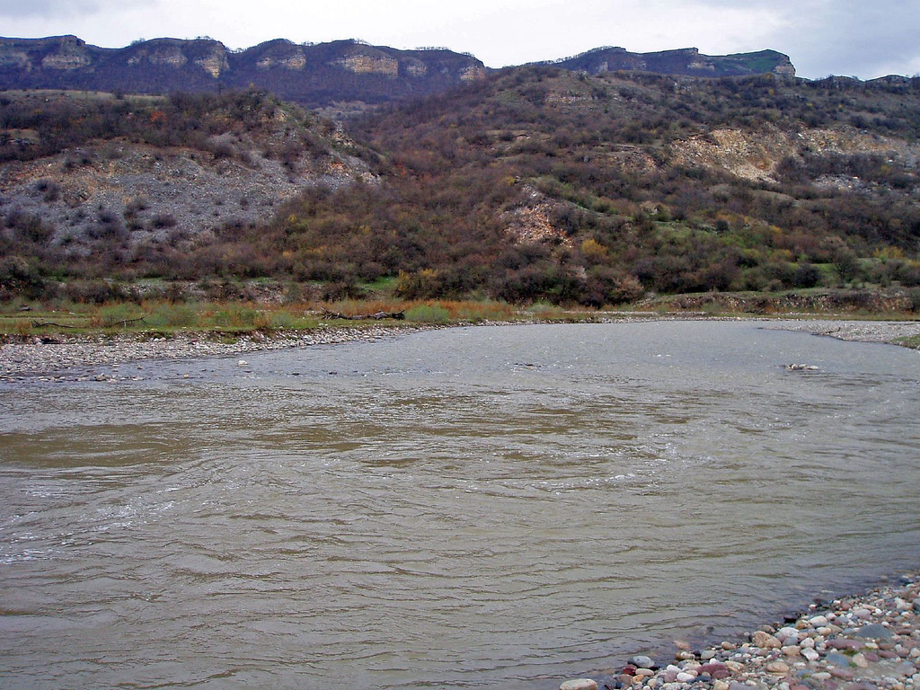 View over the Kuban River somewhere in Russia